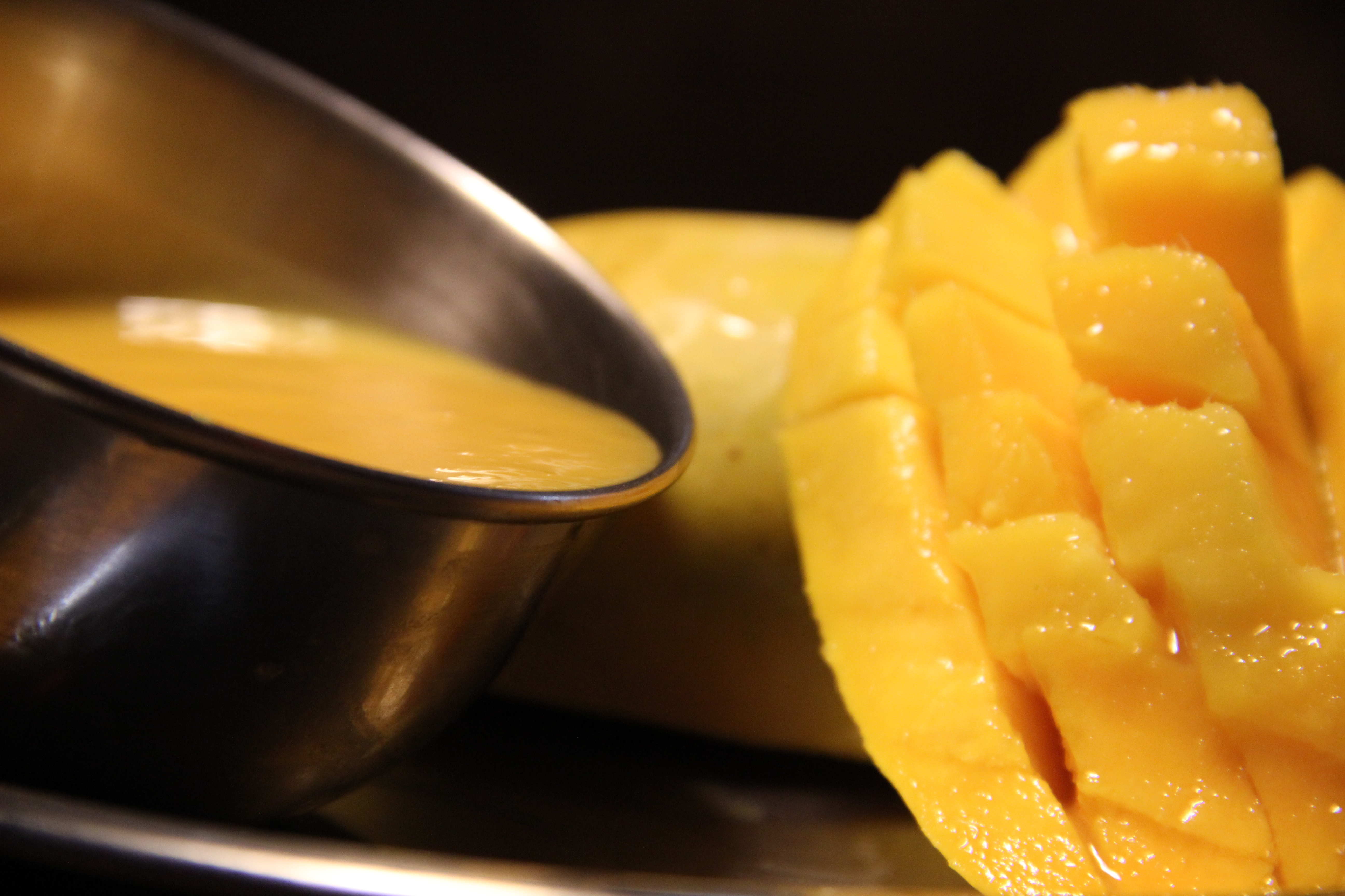 Aamras is made from the pulp of mangoes and is eaten with puri's in India.